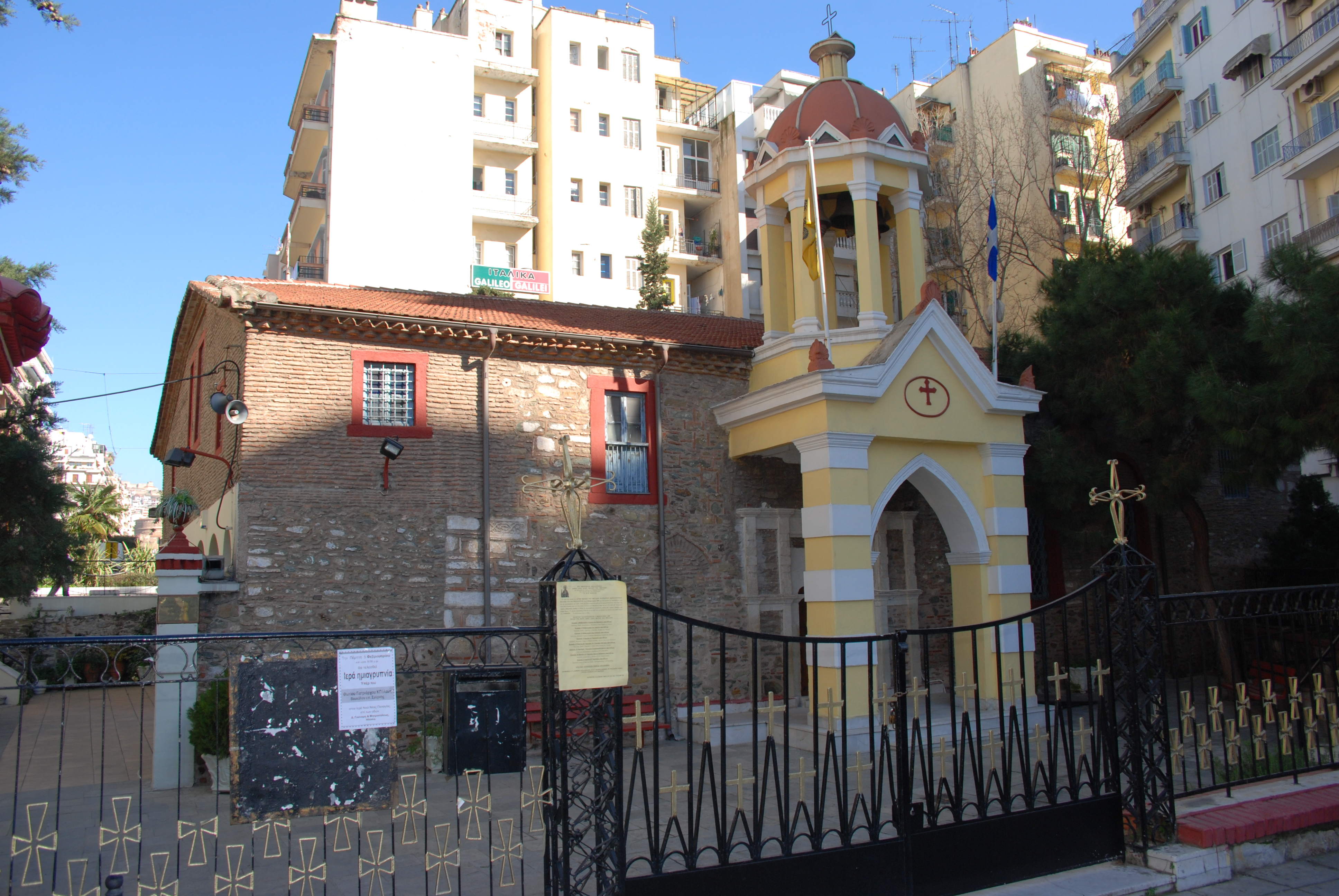 Nea Panagia in Thessaloniki by George Groutas